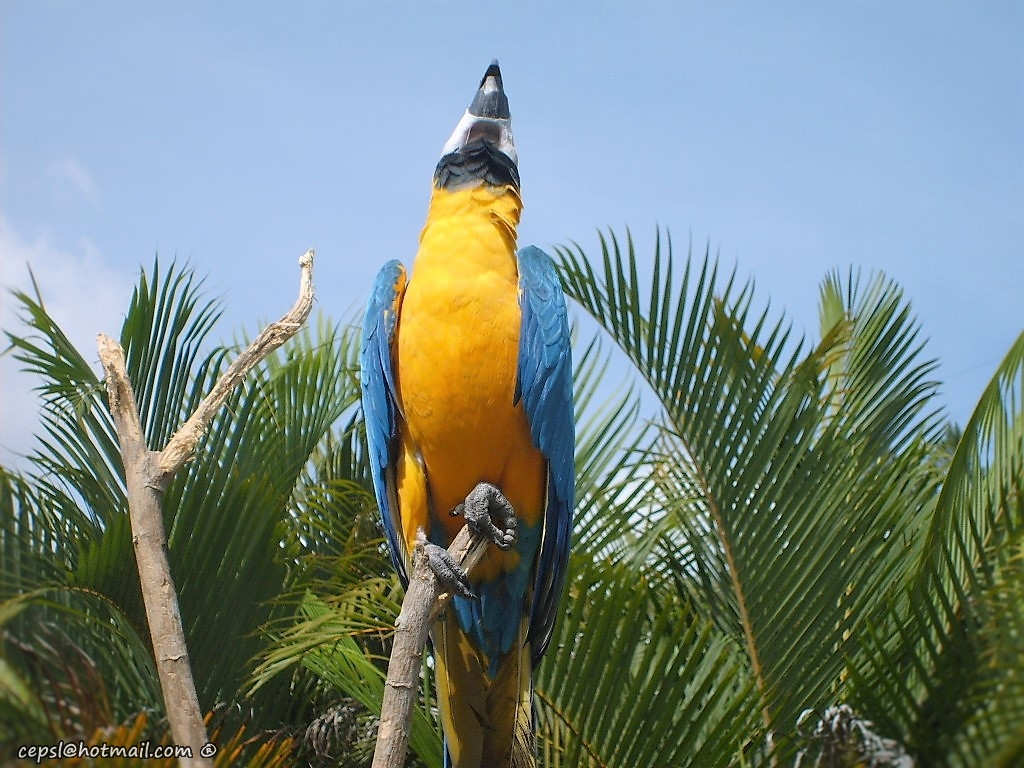 Adult specimen of a blue-and-yellow macaw in the Hatillo Expanzoo - Caracas - Venezuela